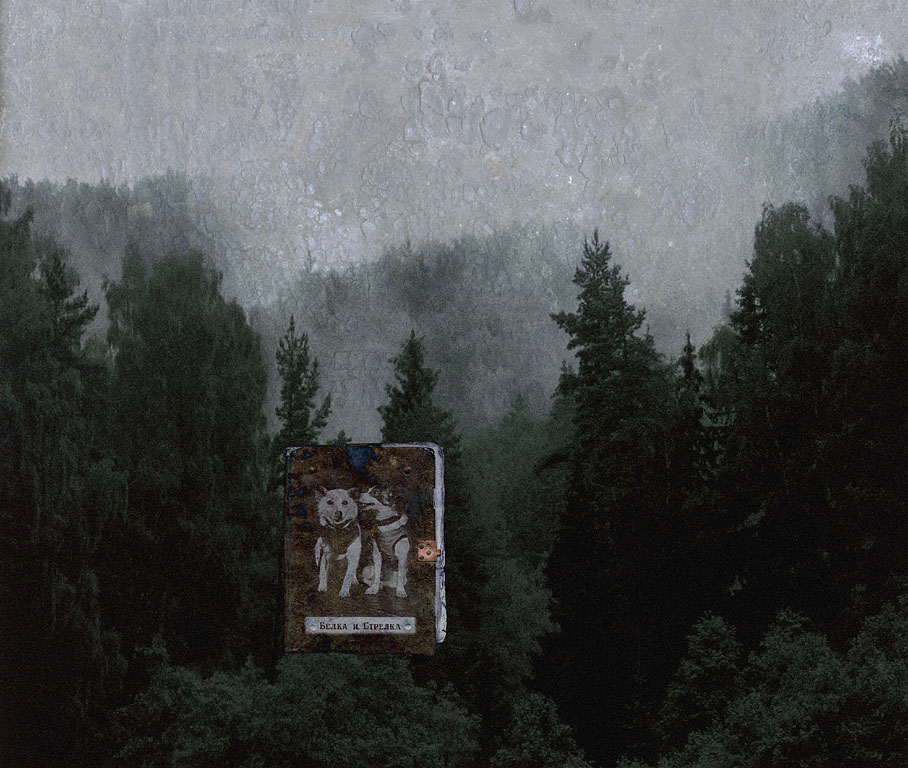 woods, evening, dogs, space dogs, Belka, Strelka